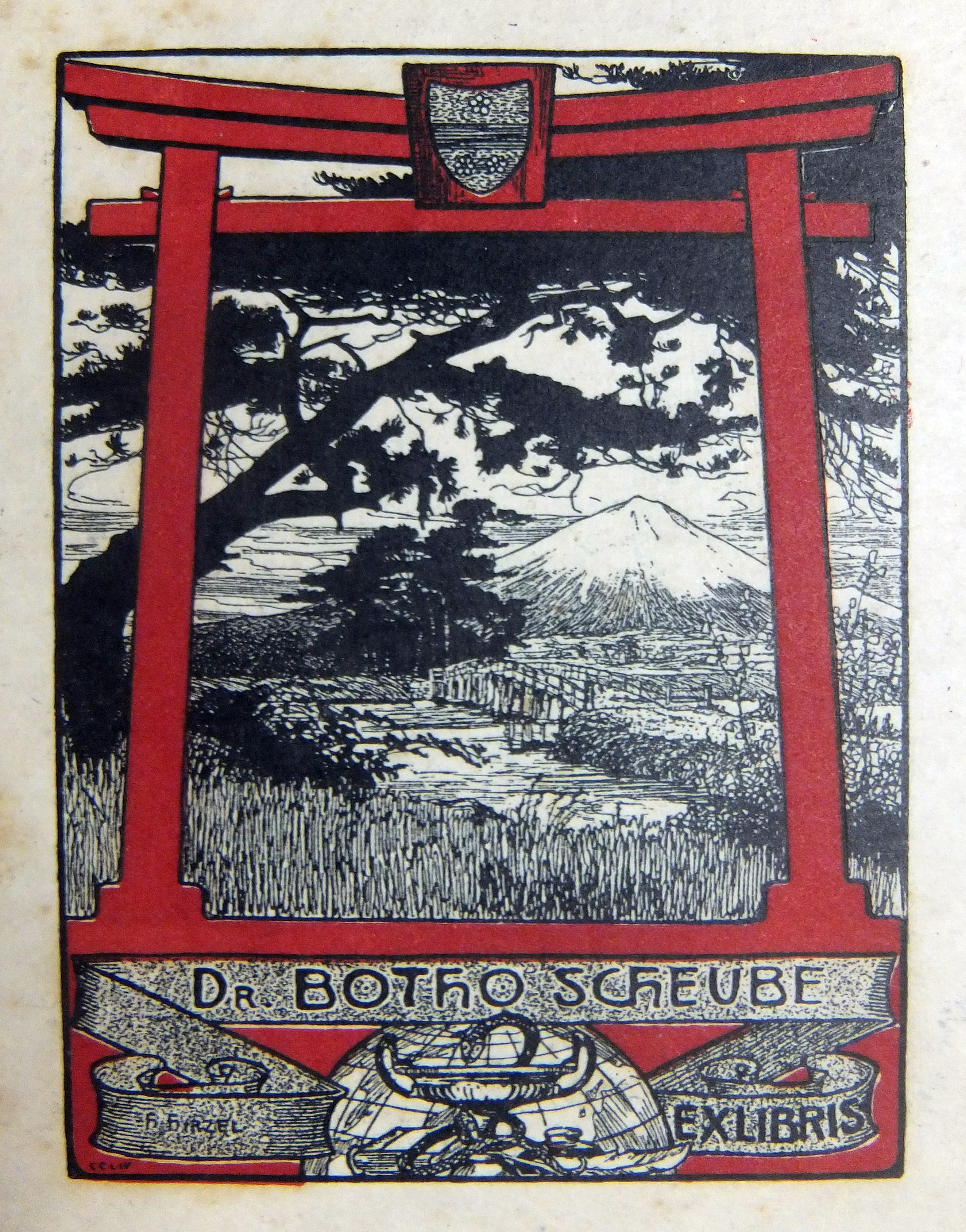 Ex Libris of the German physician Dr. Heinrich Botho Scheube (1853－1923), who taught classes at the medical school in Kyoto (Japan) and was director at a government hospital there from 1877 to 1881. The Ex Libris was made by Hermann Hirzel